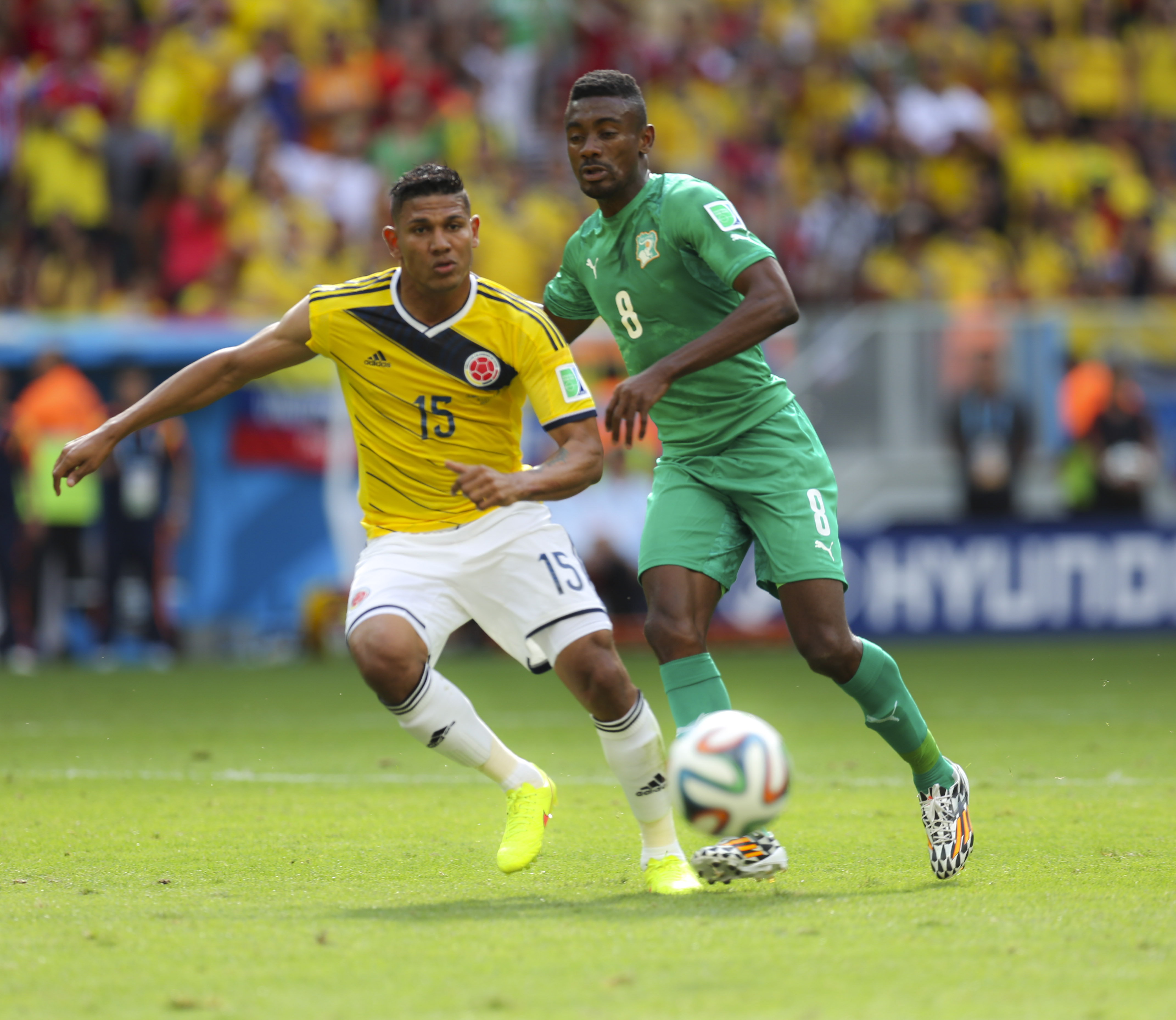 Colombia and Ivory Coast match at the FIFA World Cup 2014-06-19